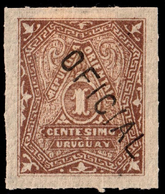 Uruguay official stamp of 1881, unused. Rouletted 8. Catalogue: Sc. O6